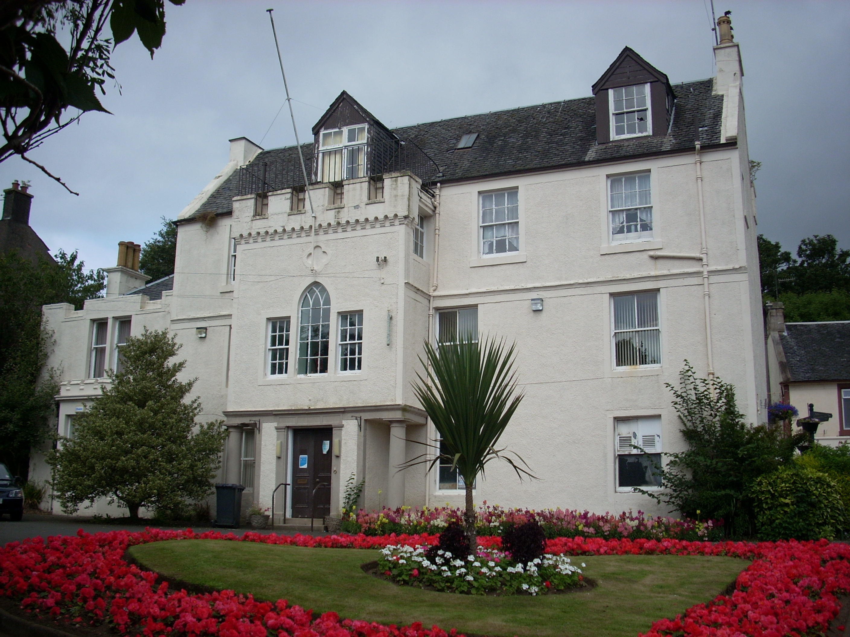 Kirktonhall House in West Kilbride, North Ayrshire, Scotland. Photo by Dreamer84, taken on 30 August 2007.